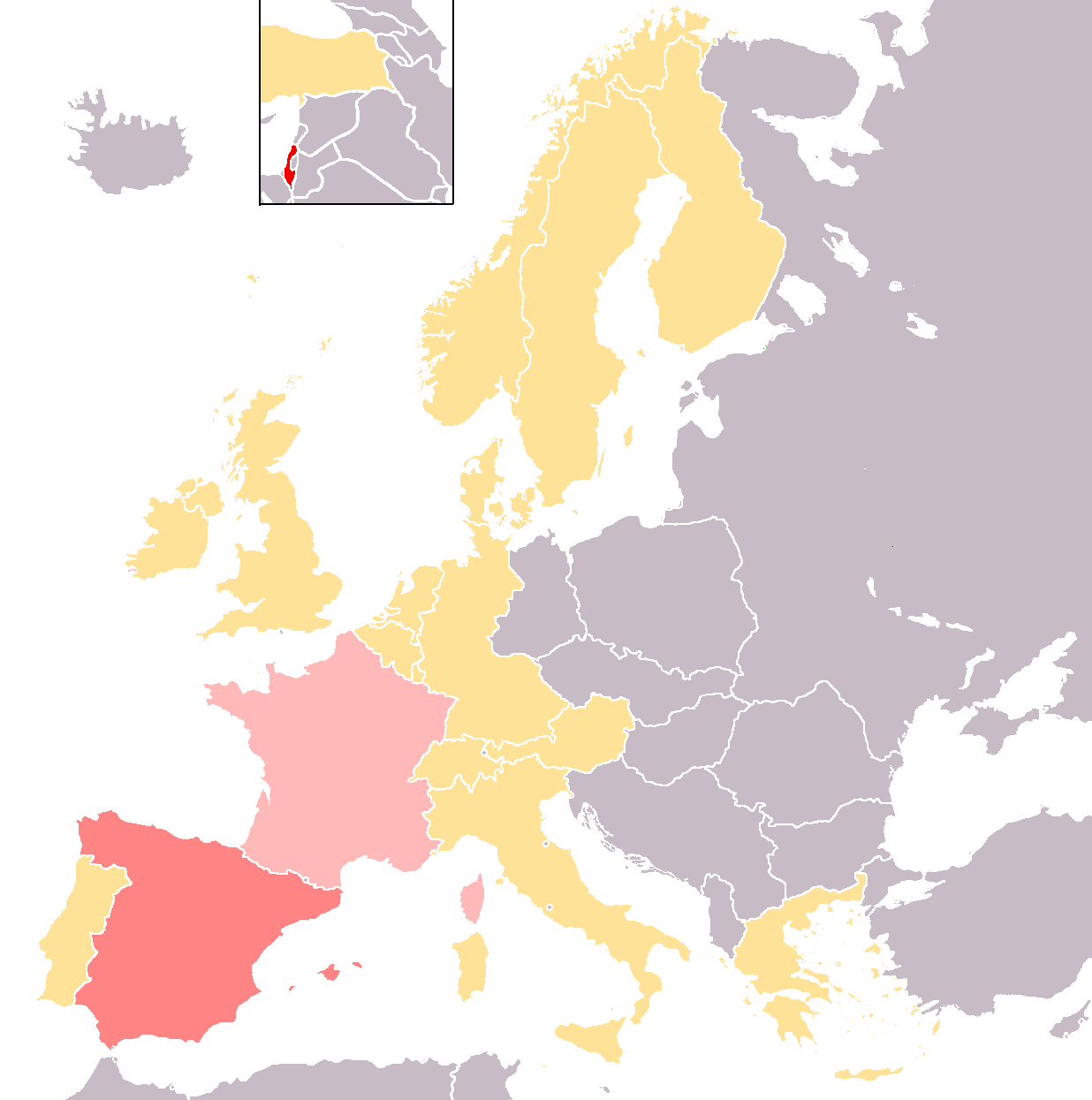 Map of Eurovision 1979